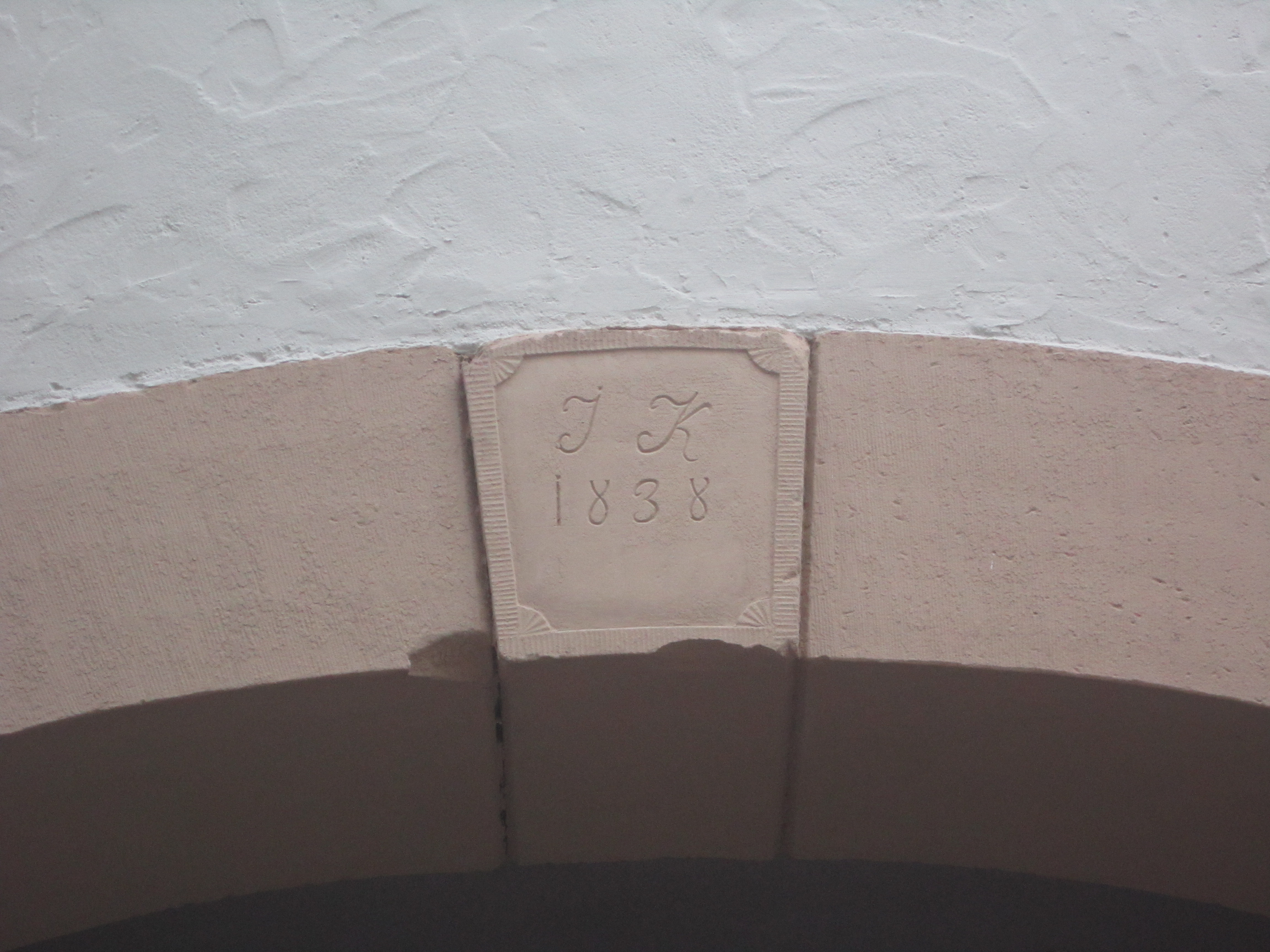 Inscription at a building in the German spa town of Bad Kissingen in Lower Franconia (Bavaria) (Address: Weingasse 3).